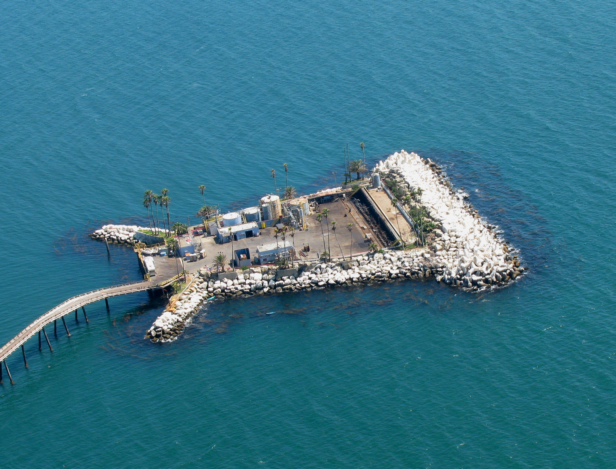 Rincon Island (Greka); photo by self, July 31, 2009; GFDL/equivalent